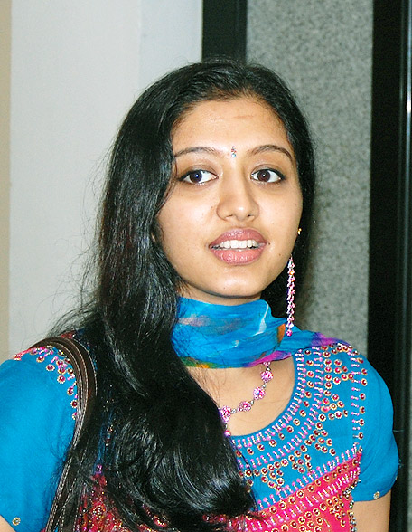 Gopika - From AMMA General body meeting 2008